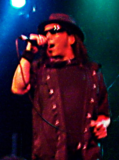 Japanese heavy metal band Loudness singer Minoru Niihara, live at the Knust in Hamburg, Germany, 20-07-2010